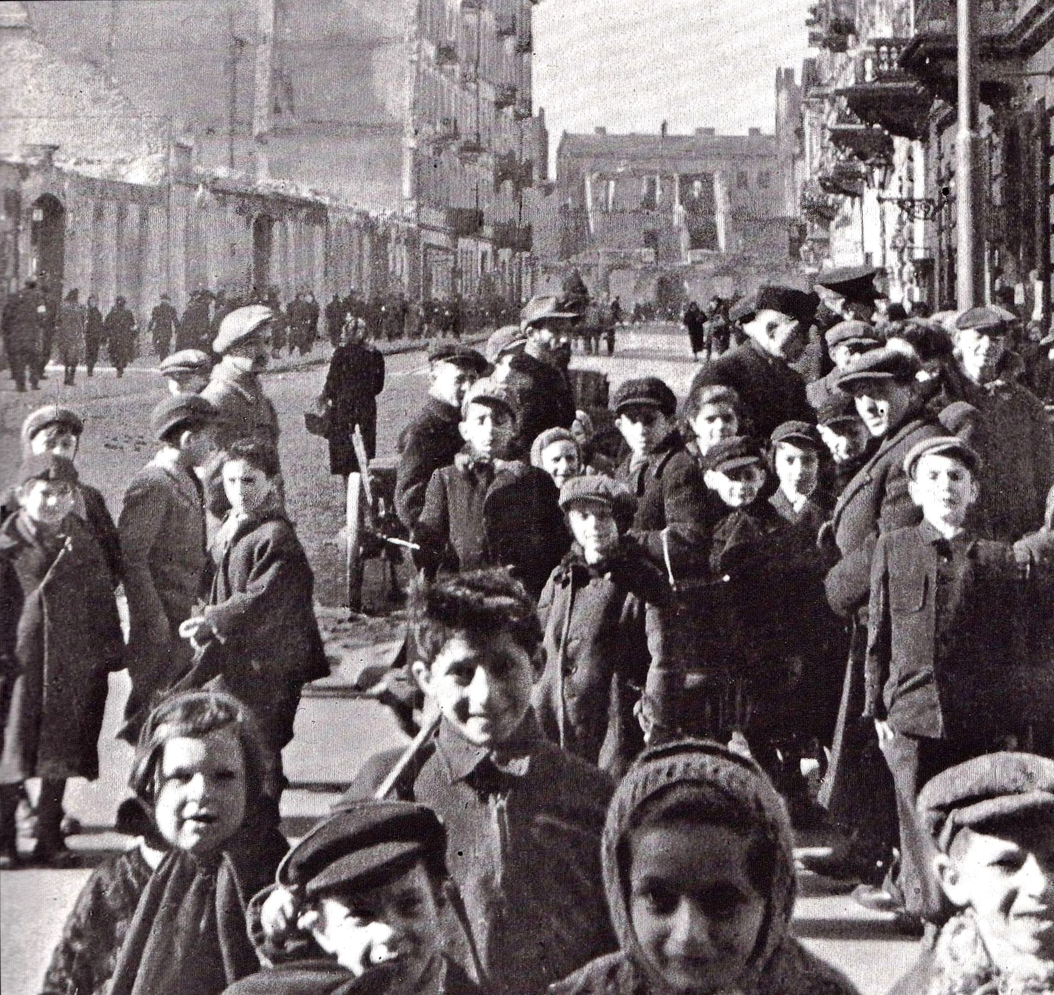 Children in the Warsaw Ghetto